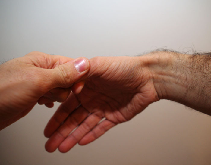 original Finkelstein's Test, as described by Harry Finkelstein in 1930.